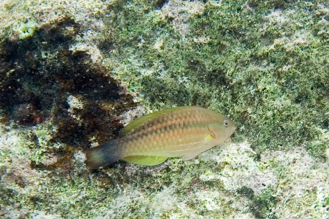 princess parrotfish Scarus taeniopterus initial phase